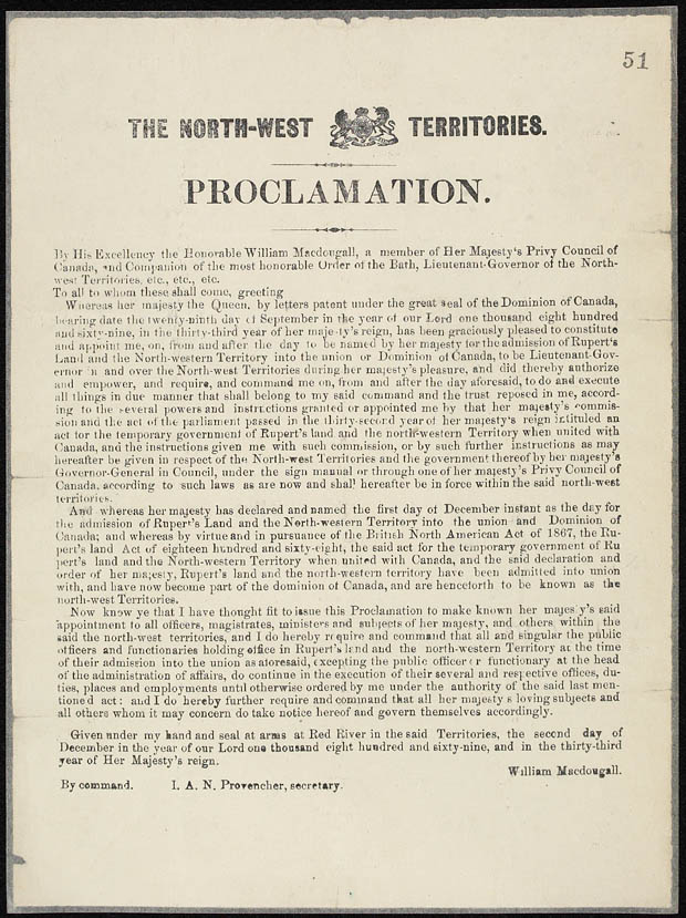 Proclamation concerning the admission of Rupert's Land and the North-West Territories to Canada